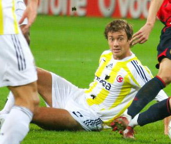 Diego Lugano